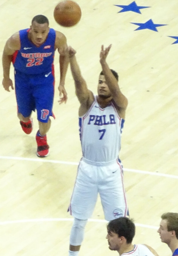 Timothe Luwawu-Cabarrot Shooting s Free throw vs the Detroit Pistons basketball game at Wells Fargo Center, Philadelphia, PA